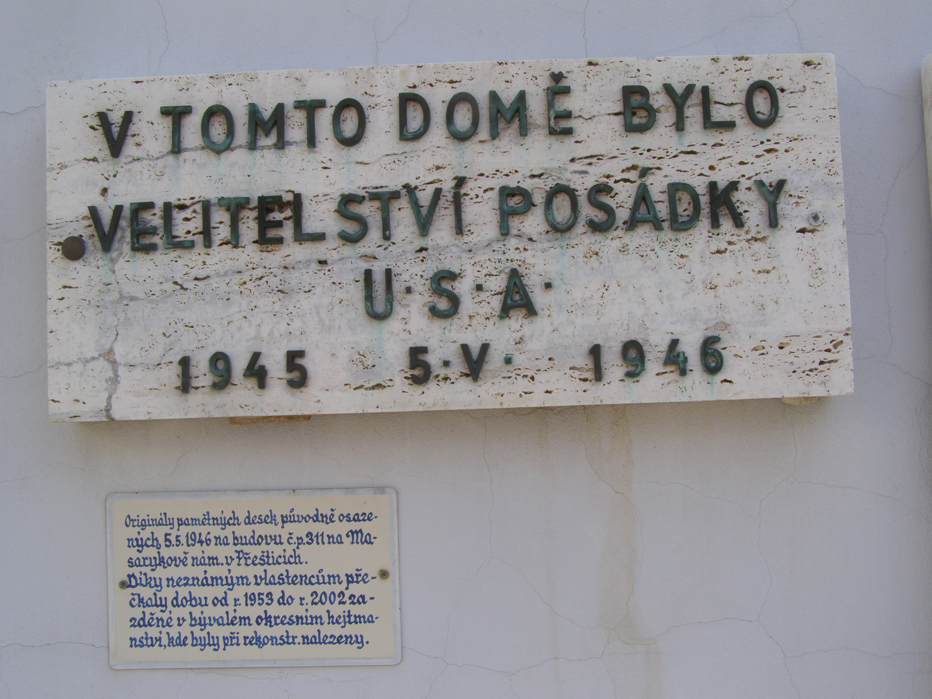 A commemorative plaque was originally located (5 May 1946) on the wall of house no. 311 on Masaryk Square in Přeštice. Between 1953 and 2002, was the board bricked in the former district executive authority, where was found during the reconstruction. Plaque commemorates the presence of the US Army headquarters crew in May 1945 in Přeštice. Today (2016) is this board visible from the first floor of "The House of Přeštice History" (Přeštice Building of the City Museum).